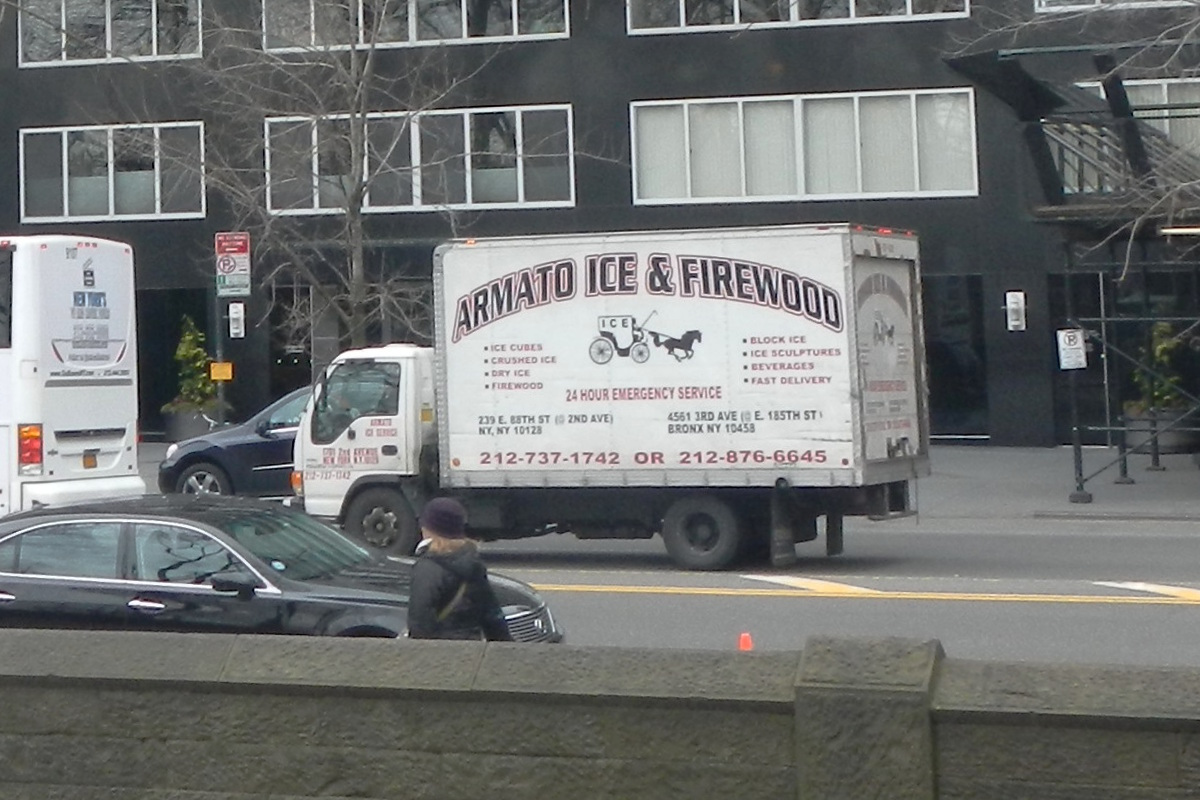 Looking south from Central Park at ice truck.